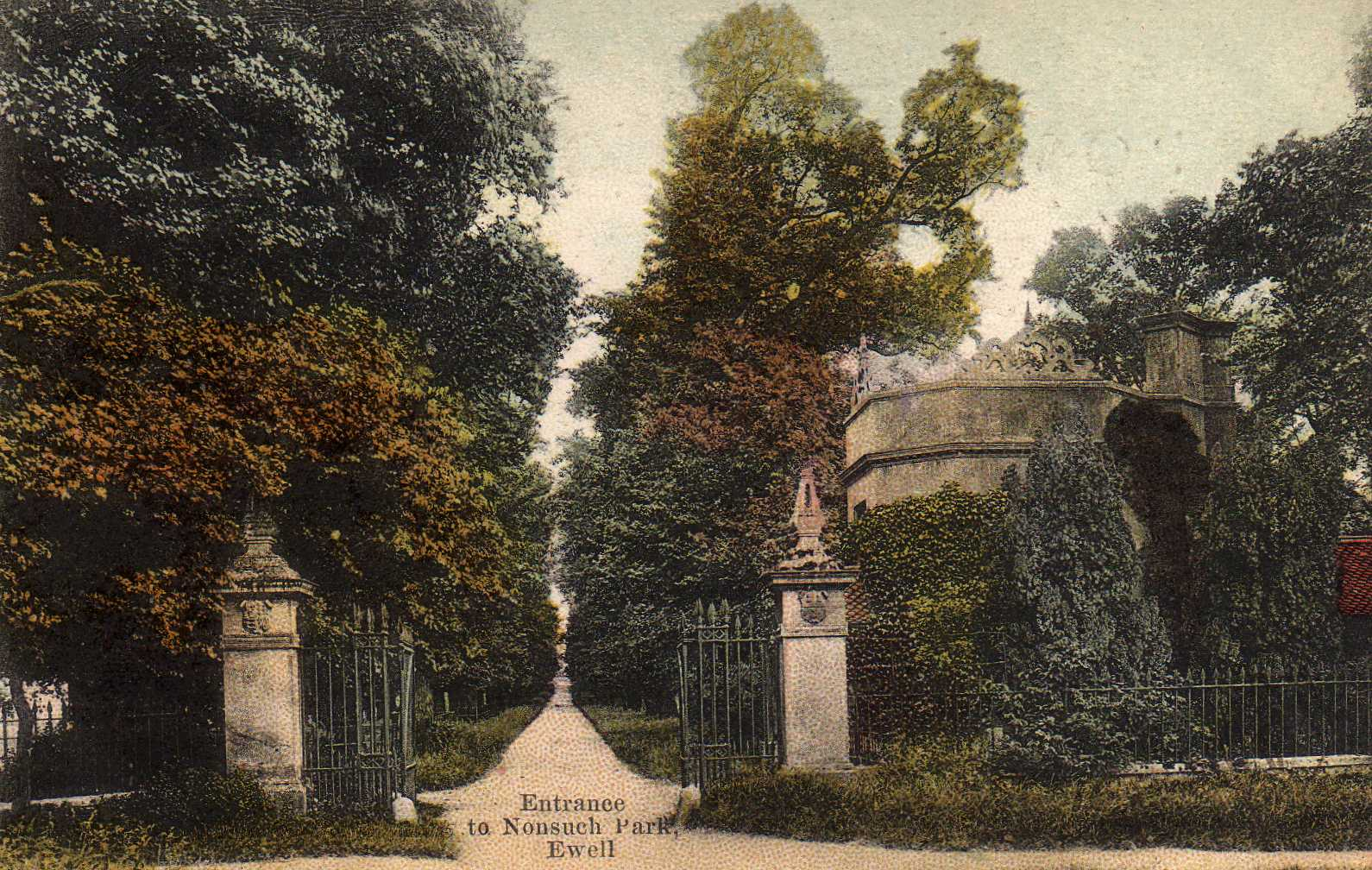 Postcard which depicts Nonsuch Park Entranceway; to provide evidence of card’s origin and antiquity to justify the given copyright tag. The park contains the archaeological site of the once splendid Nonsuch Palace, which was built by King Henry the VIII.